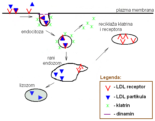 LDL endocytosis